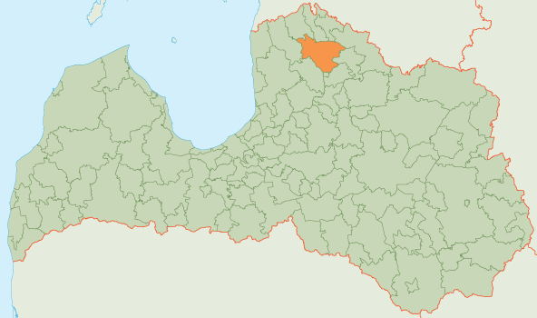 Map of Burtnieki